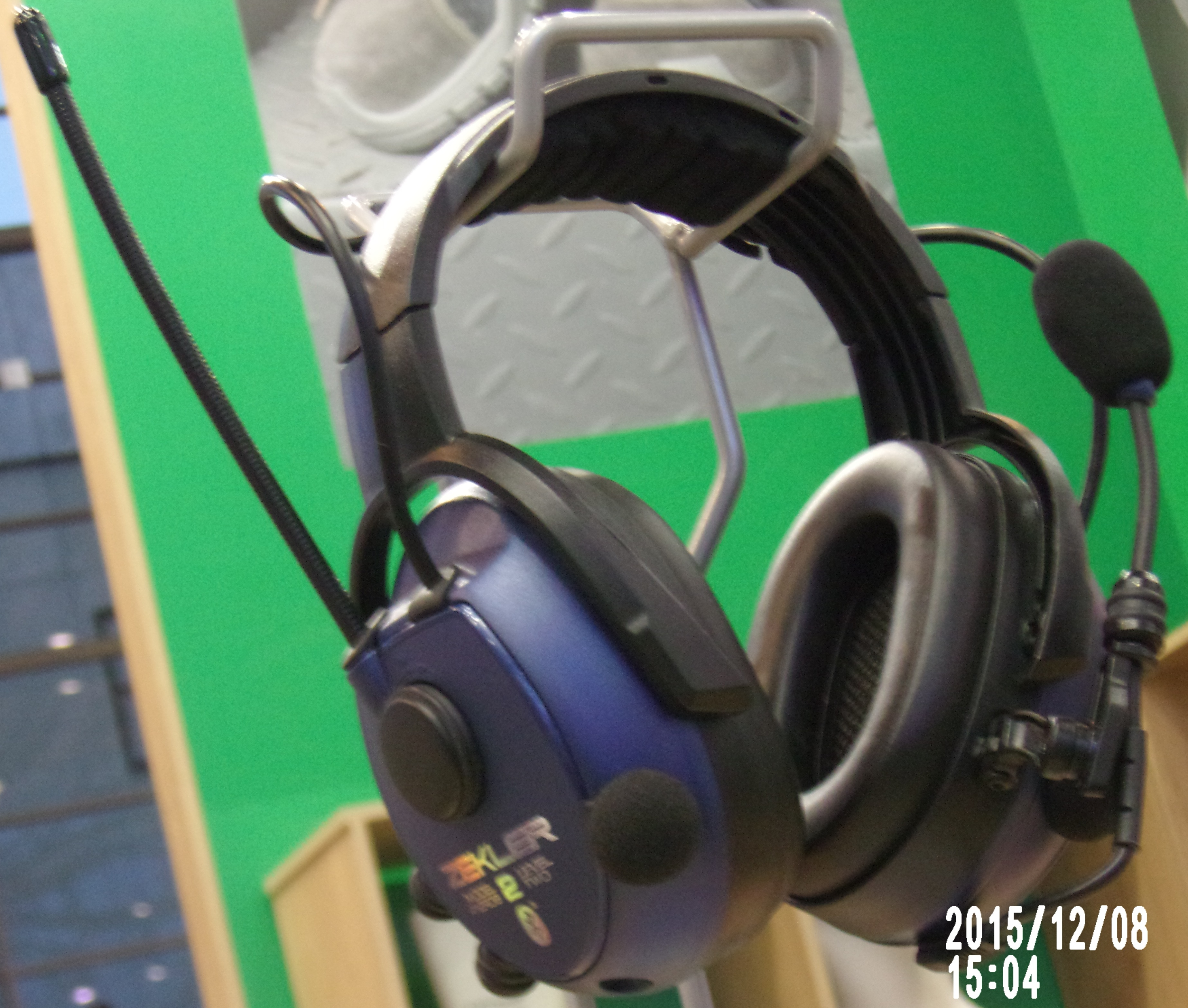 Personal Protective Device to protect the ears from the noise. The headphones have a microphone, an electronic signal processing unit and a special acoustic generator of anti-noise - to suppress noise from the ear canal. Employees use radio for communication.